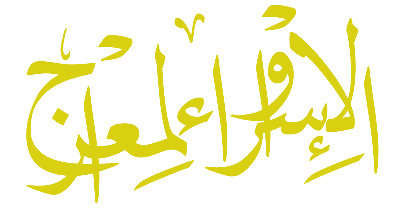 Isra and Mihraj